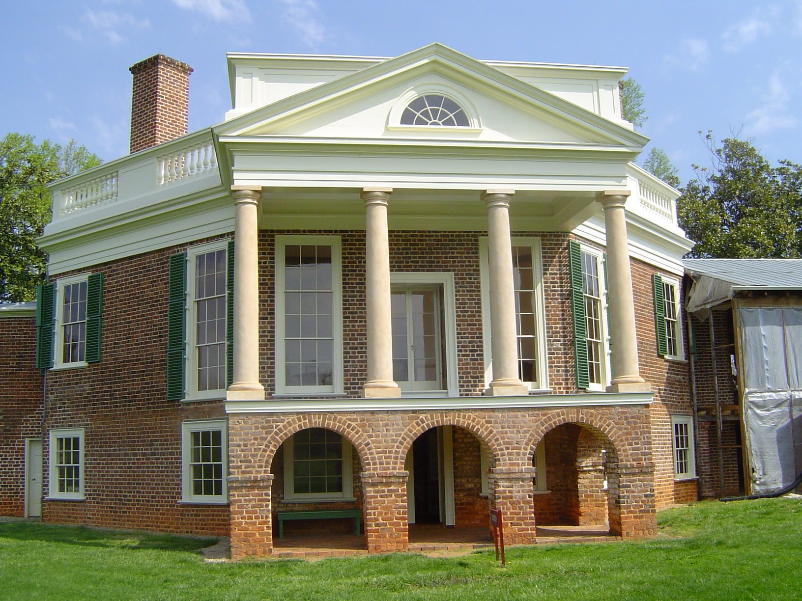 Thomas Jefferson's Poplar Forest